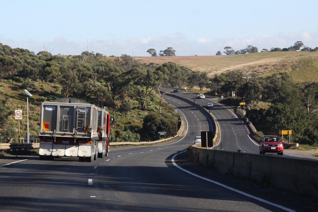 The 2nd alignment over Djerriwarrh Creek in the Anthony's Cutting stretch of the Western Highway. Victoria, Australia. The original route was a stone bridge hidden to the right, the current route is a new freeway standard route to the left.